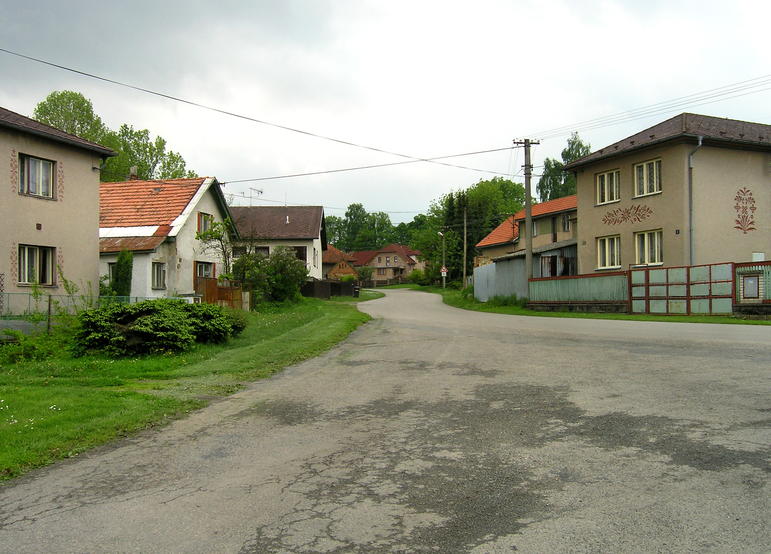 Common in Jiříkov, part of Kámen village, Czech Republic